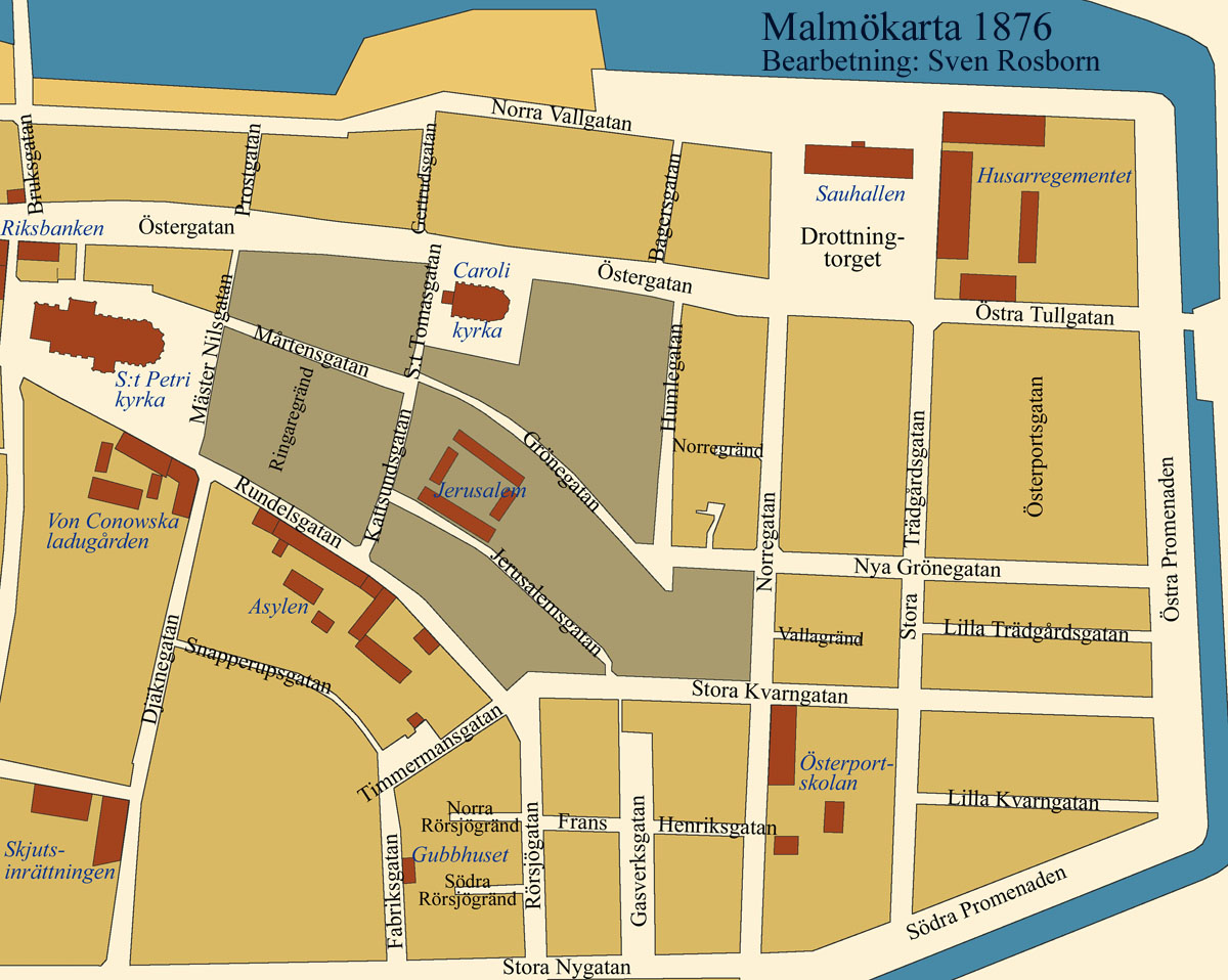 Map of old Malmo